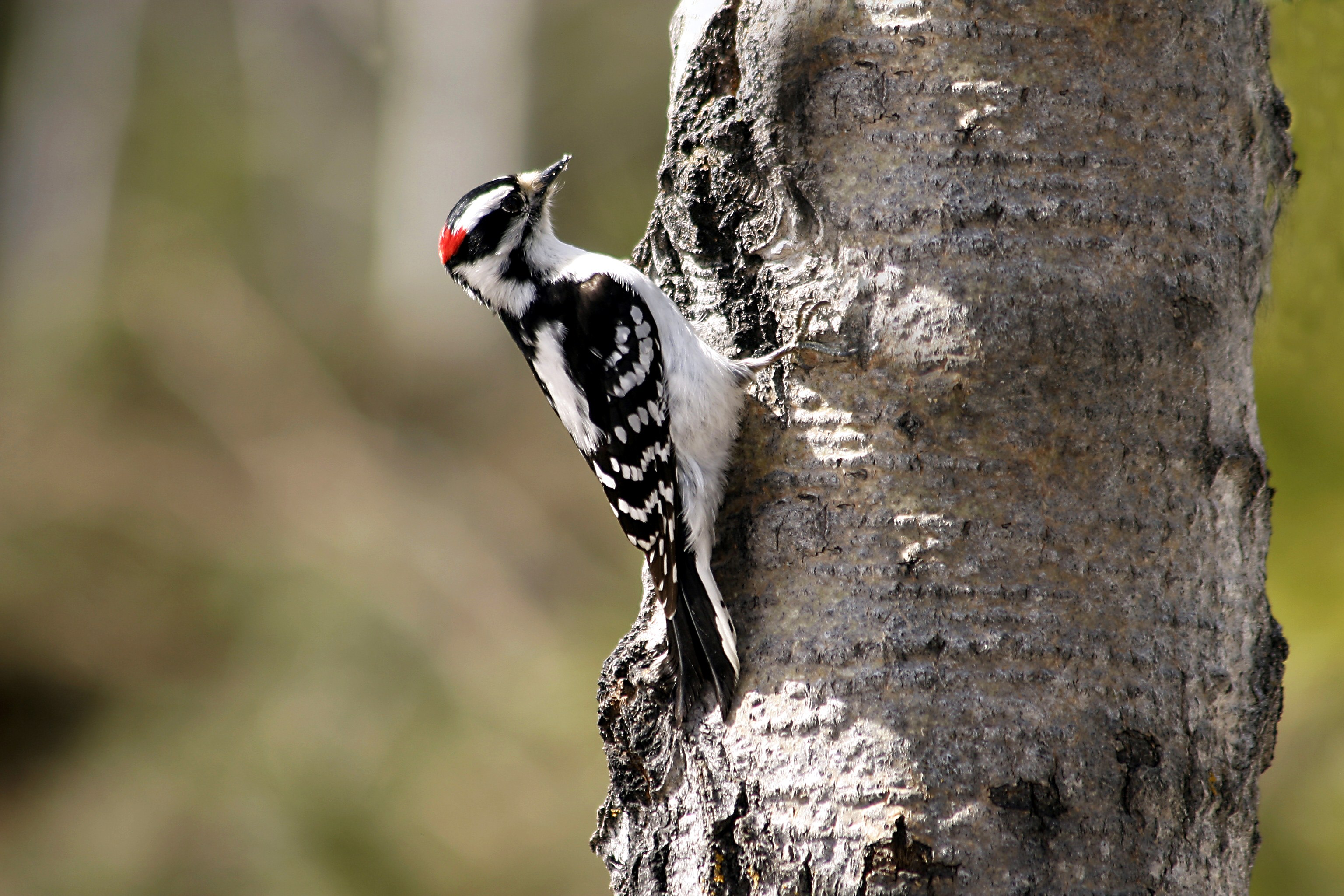 Photo: Downy Woodpecker. Photo Credit: Conrad Warren, 2012 Photo Contest